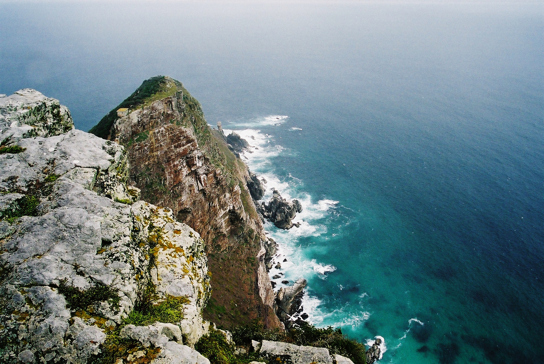 Cape Point - South Africa